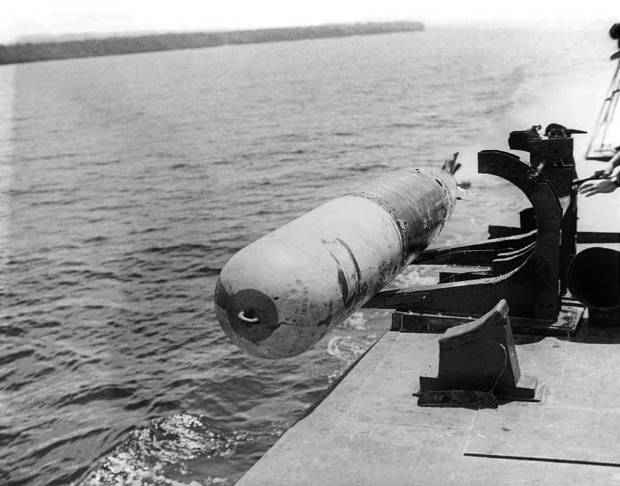 A Mark XIII torpedo is launched from a U.S. Navy Motor Torpedo (PT) Boat during a practice run out of the Rendova PT base in the Central Solomon Islands, circa 1943-1944. Note the cradles used to stow the torpedo and roll it over the boat's side.